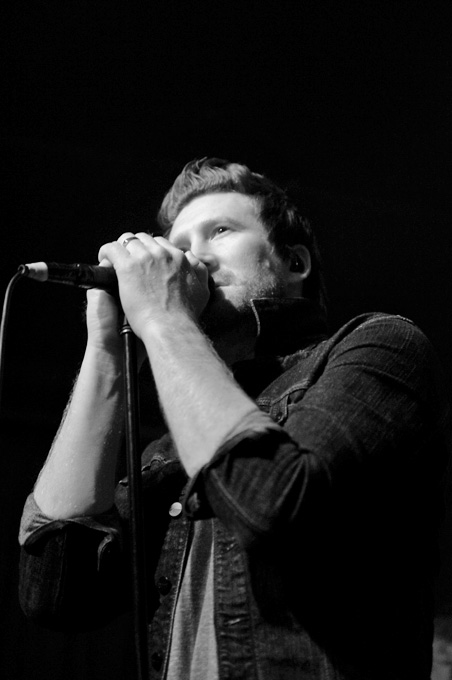 Anberlin @ Club Capitol (26/8/2011)